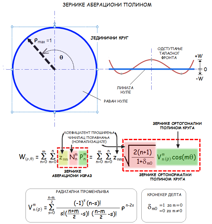 ЗЕРНИКЕ АБЕРАЦИОНИ ПОЛИНОМ